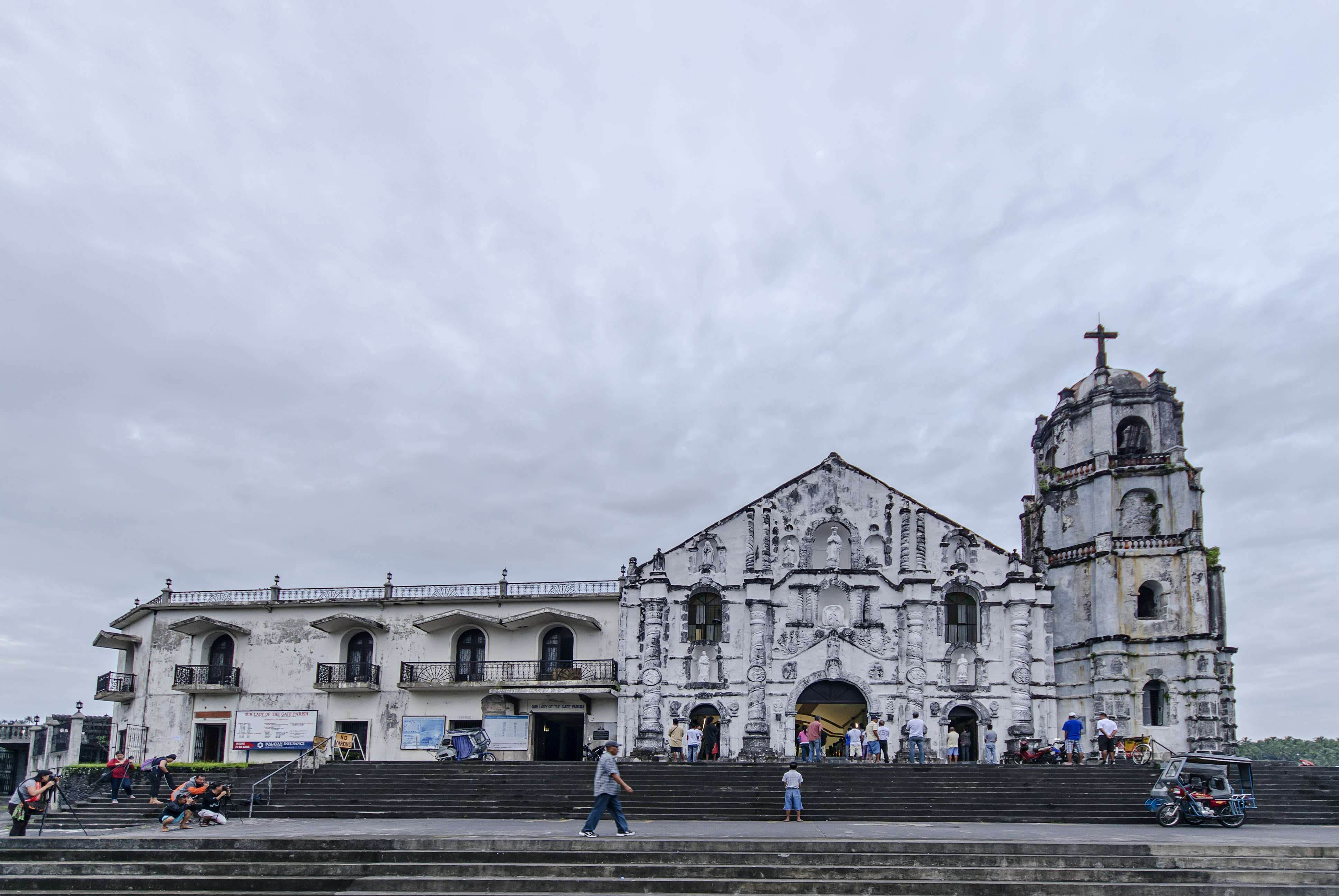 The Church of Nuestra Señora de la Porteria also known as Our Lady of the Gate stands on top of a hill above the town of Daraga, Albay, Philippines.